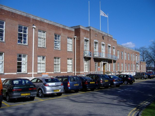 Civic Offices, Swindon. Swindon's current town hall, in Euclid street.